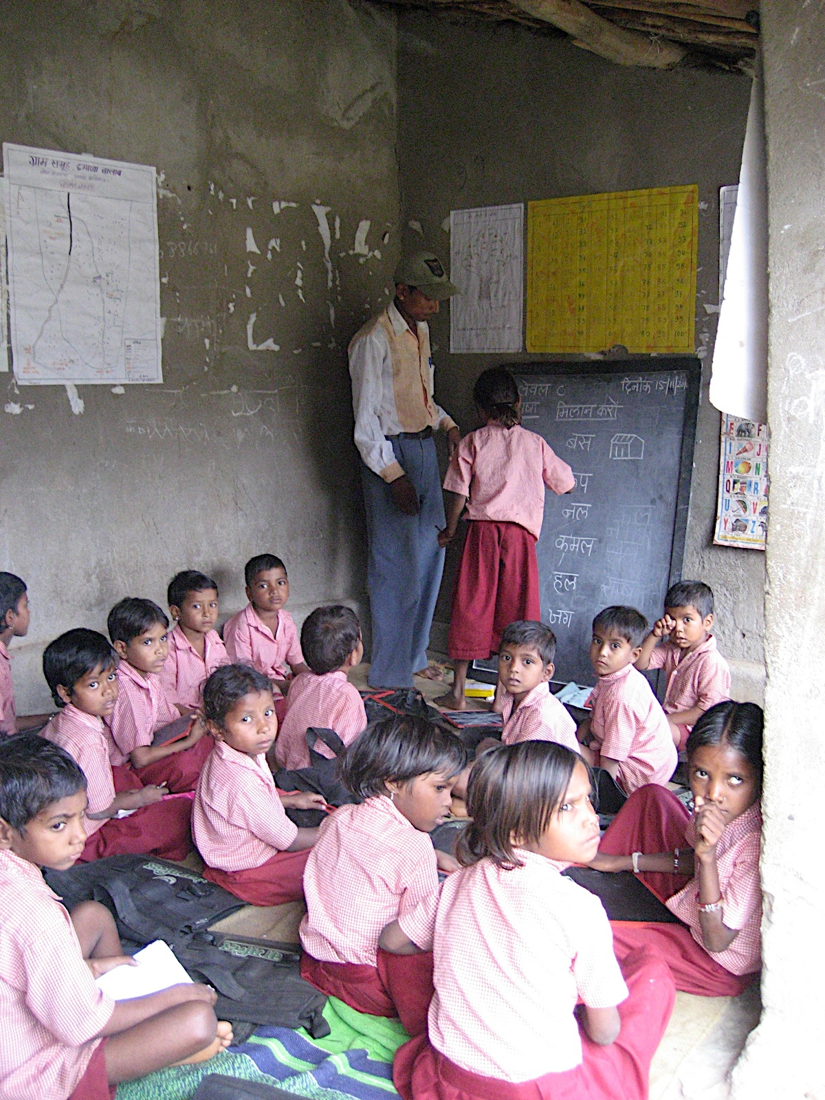 Non-formal education center. From the GiveWell visit to NGO Seva Mandir in Udaipur, Rajasthan. August-November 2010. More information.